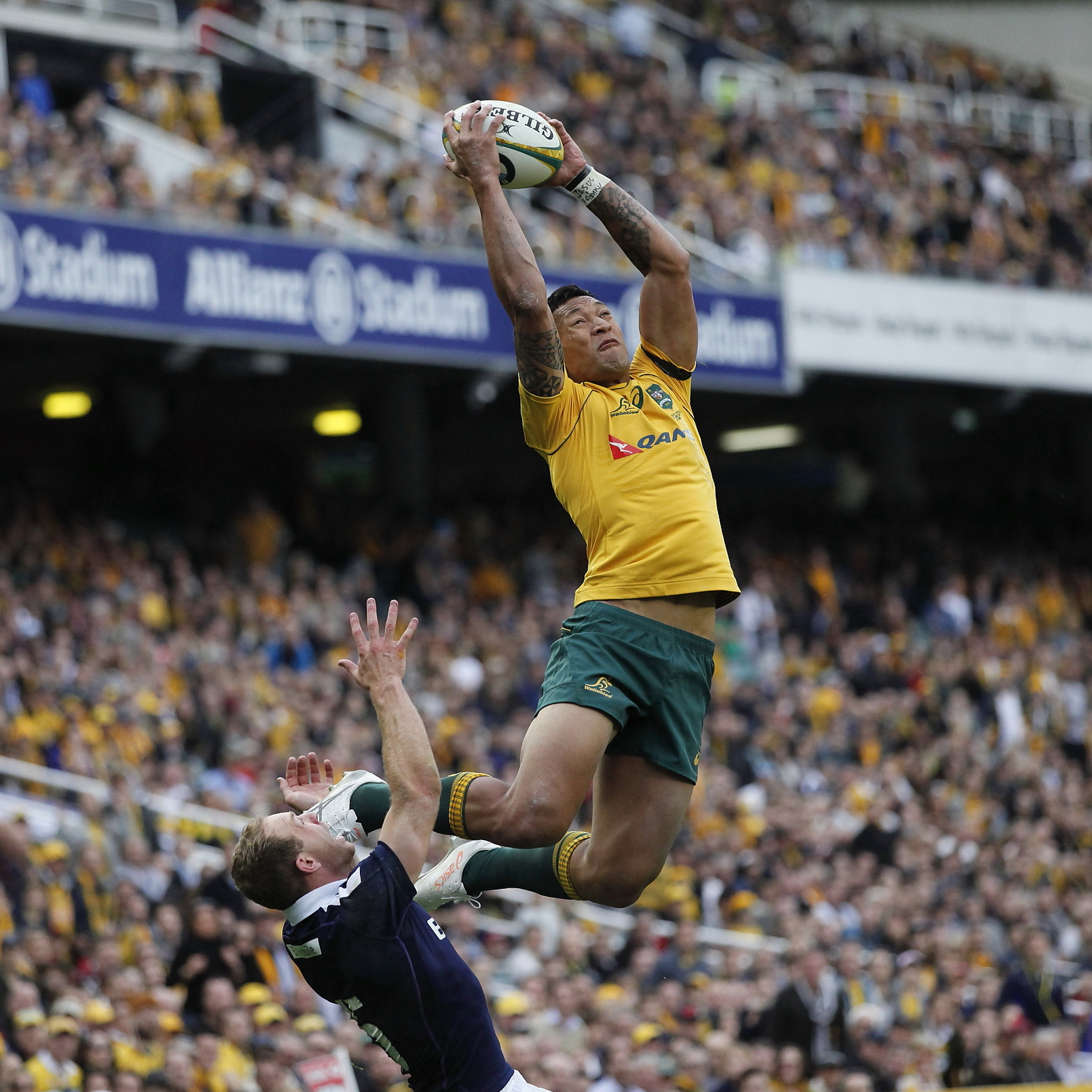 2017.06.17.15.50.14-Folau try over Greig Tonks-0001 The 2017 mid-year rugby union international, 17 June 2017, Australia vs Scotland at Allianz Stadium, Sydney